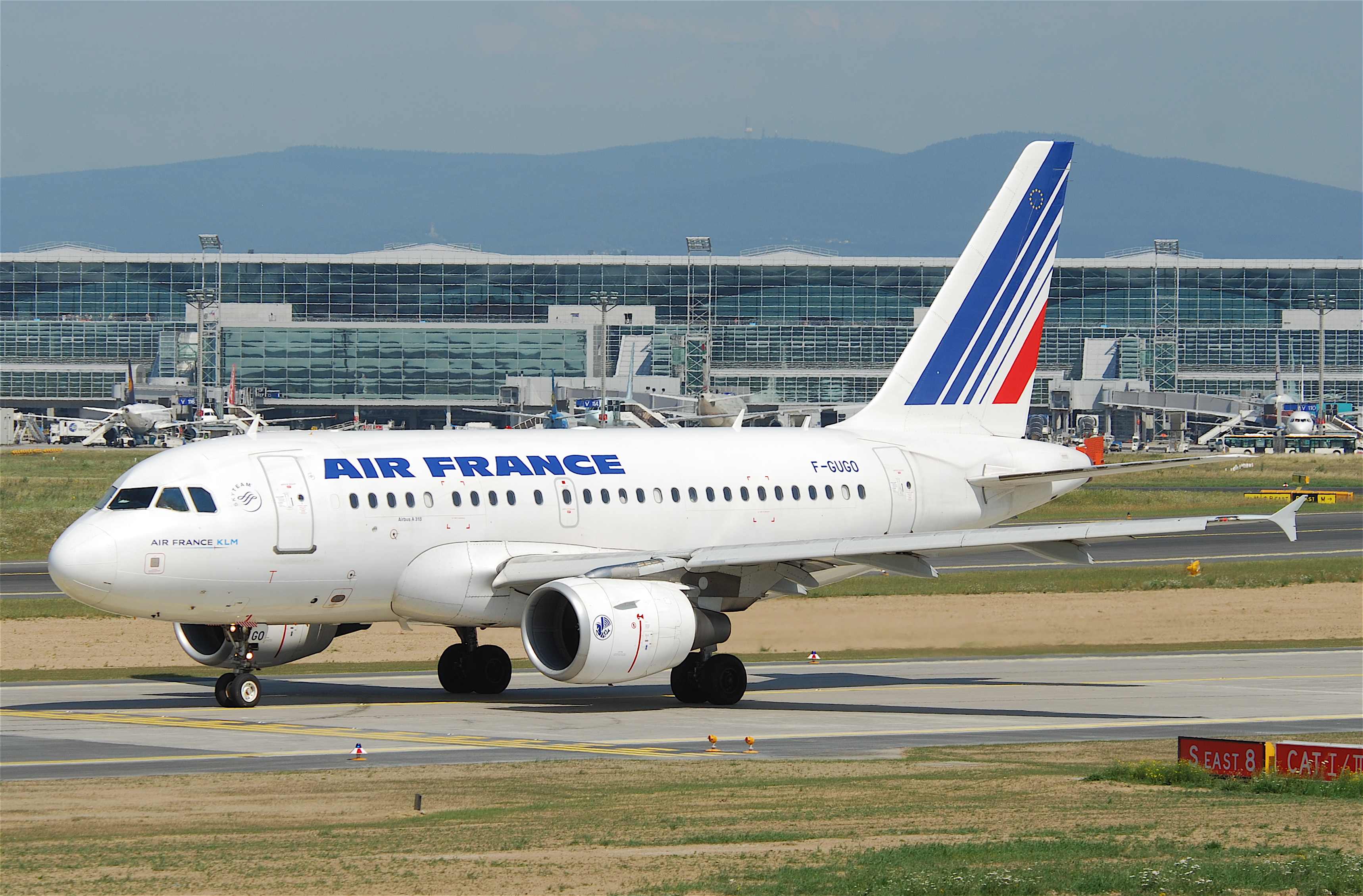 Air France Airbus A318-111; F-GUGO@FRA;06.07.2011/603ho